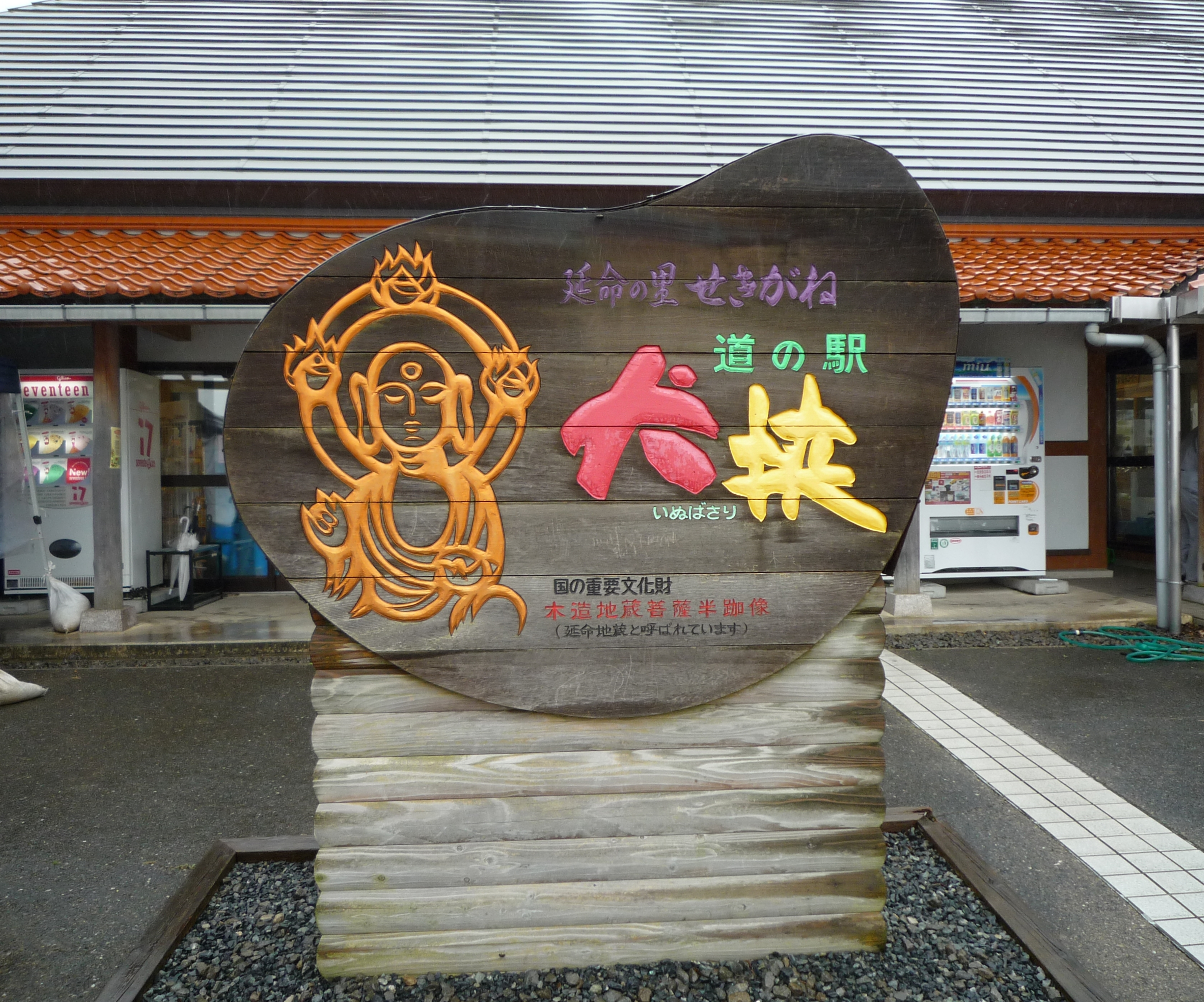 Welcome board of Michinoeki Inubasari